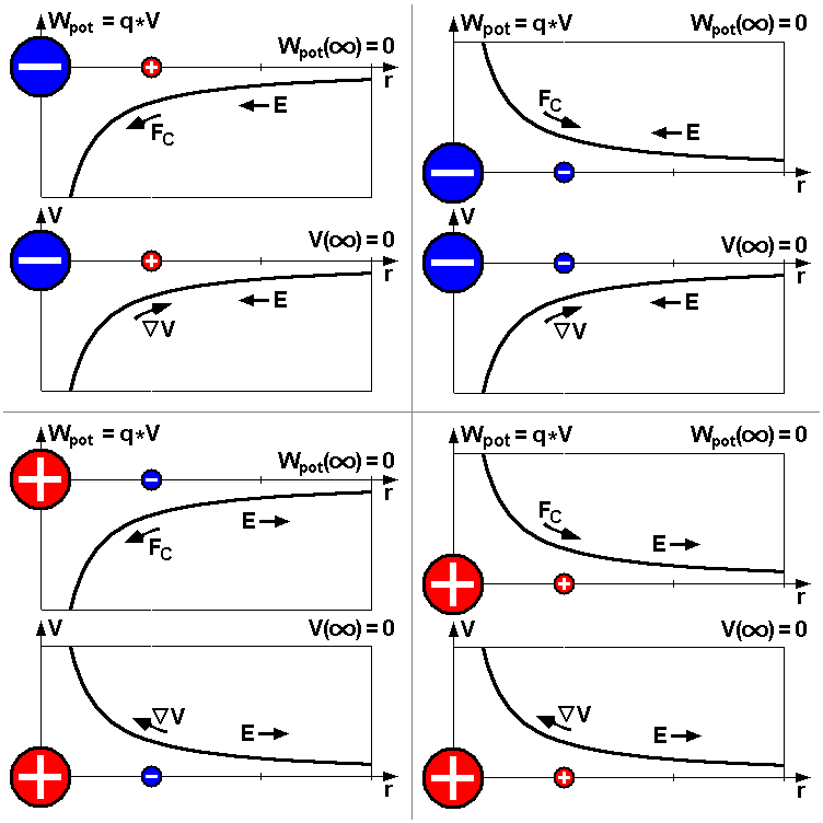 Potential energy Wpot of an electrically charged particle in the surrounding of a negative (upper row) or positive (lower row) central charge, and potential V of their respective electric fields